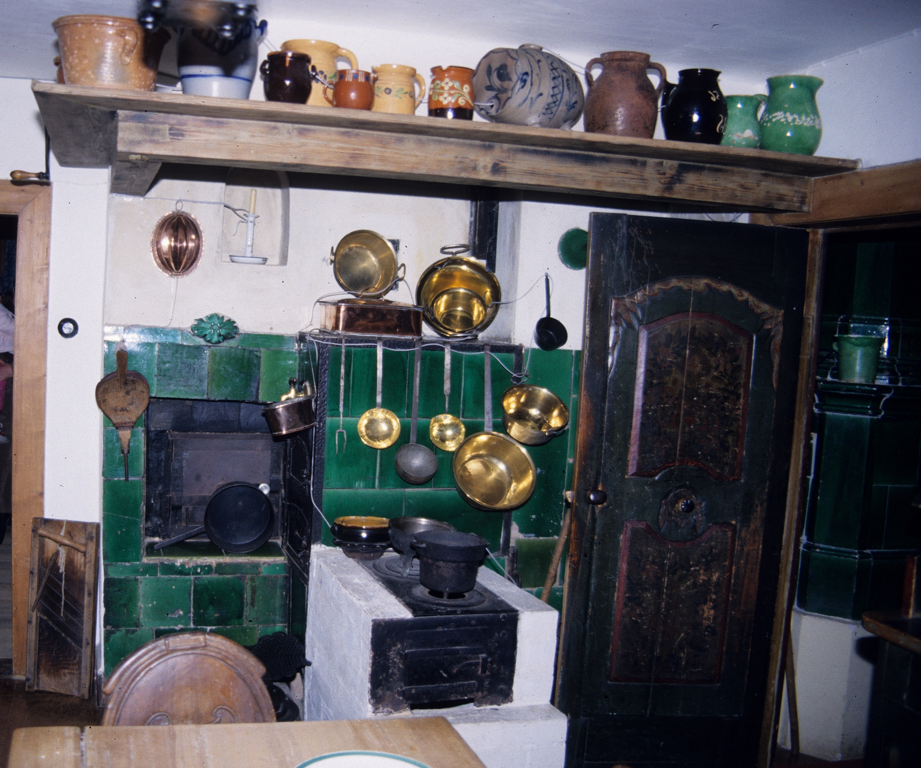 Museum of Local History at Black Forest